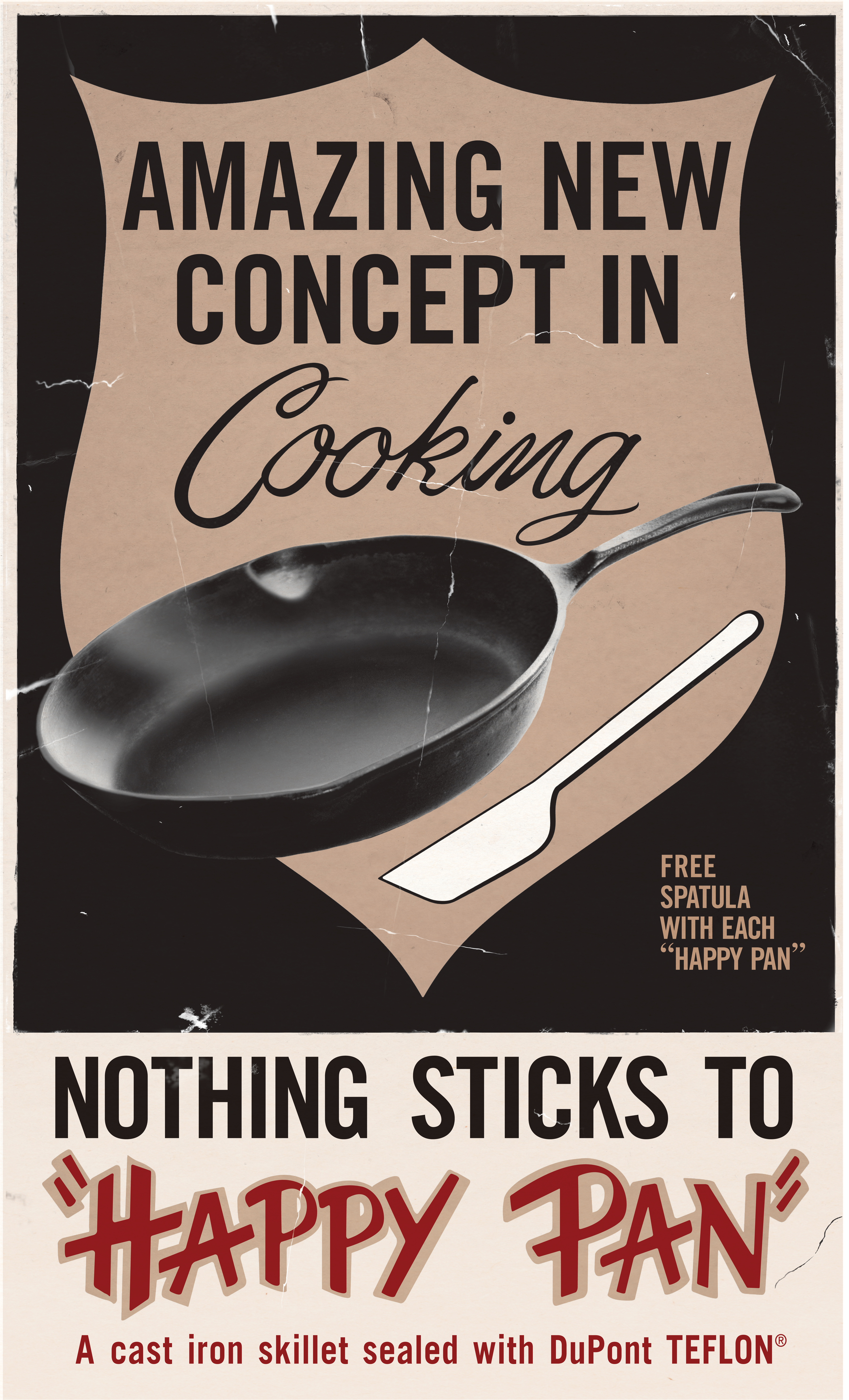 a poster displaying the first sold Teflon coated frying pan